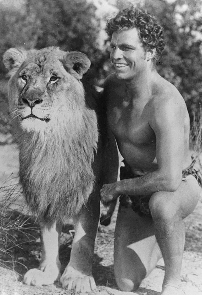 As Johnny Weissmuller (first athlete swimmer and actor), Buster Crabbe, the famous Olympic swimmer, will act in the film seria 'Tarzan the Fearless' on February 9, 1933.